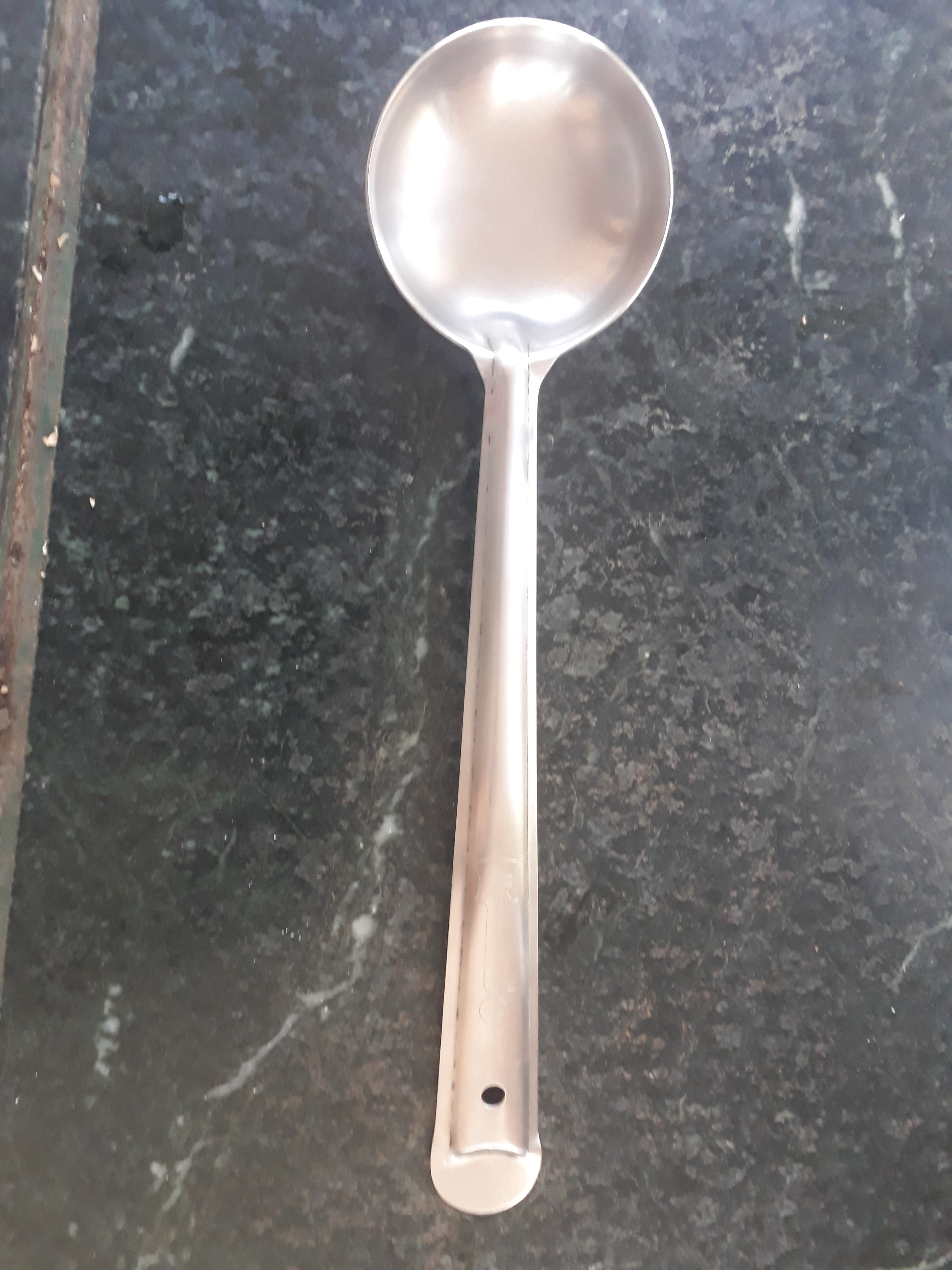 पाकसाधने - डाव